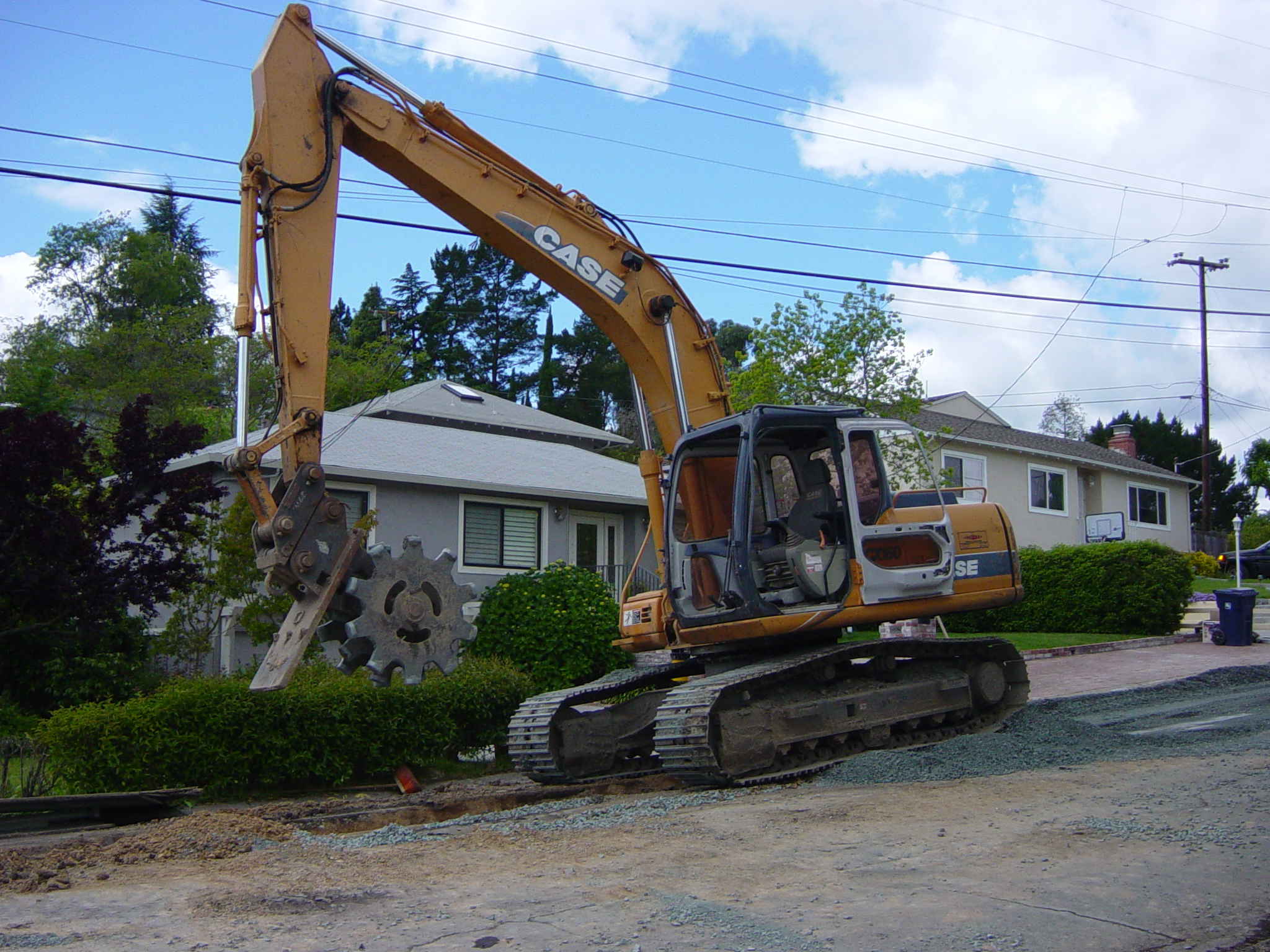 This Case crawler-backhoe is equiped with a tamper to compress the fill over a new sewer